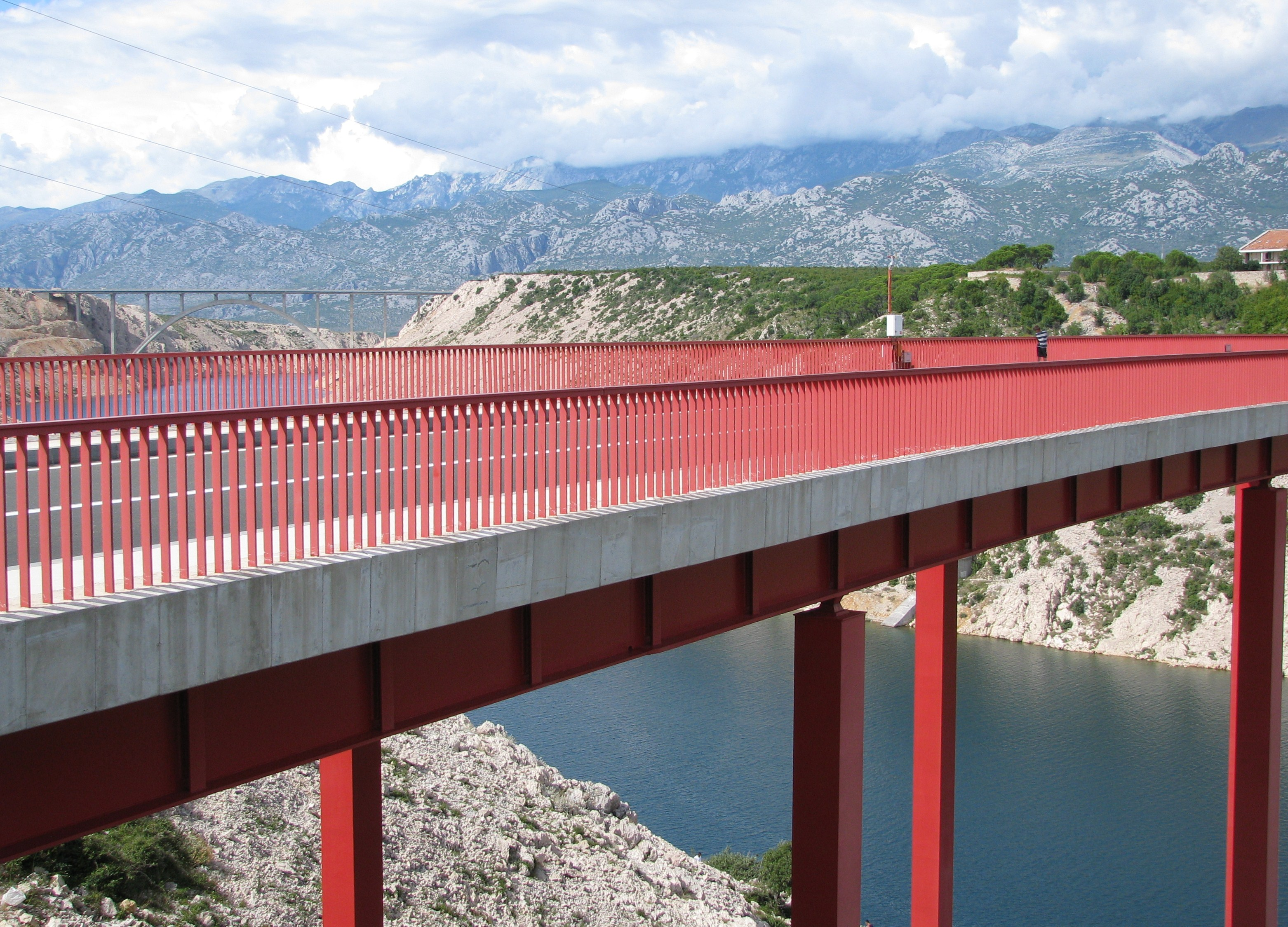 Old and New Maslenica Bridges. Novsko ždrilo.